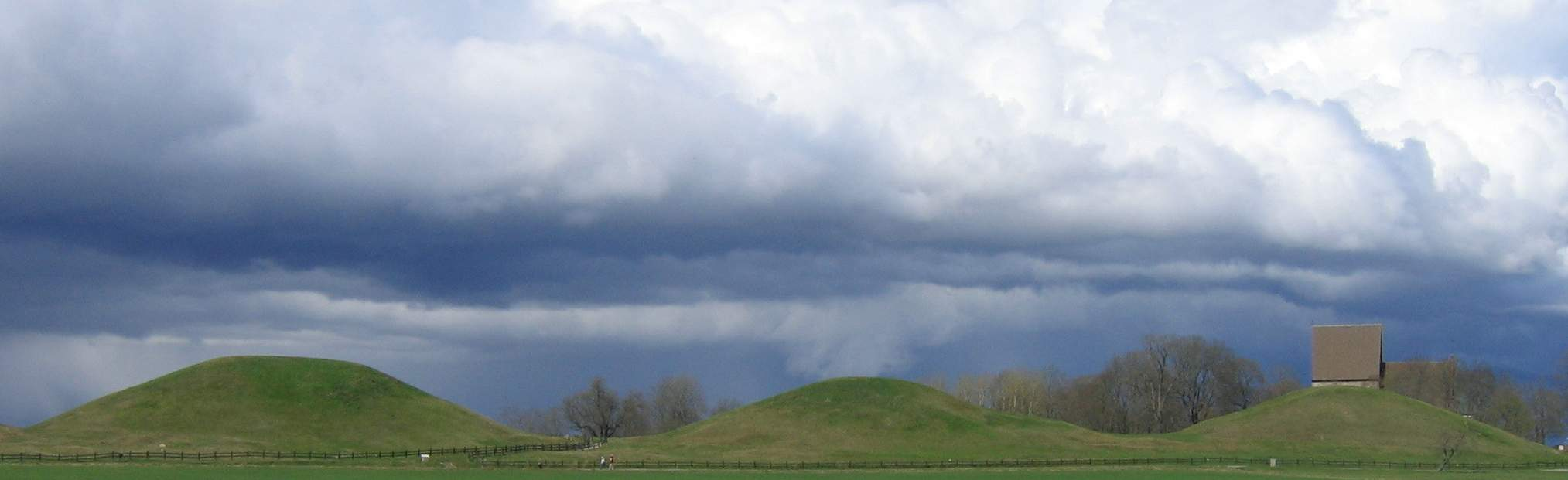 The three large "royal mounds" at Gamla Uppsala, Sweden. In the background to the right one can see part of Gamla Uppsala church, built in the mid 12th century.